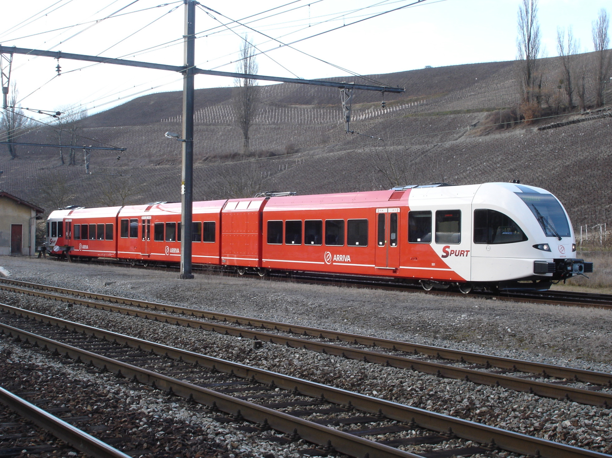 Arriva Spurt #501 at La Plaine train station.